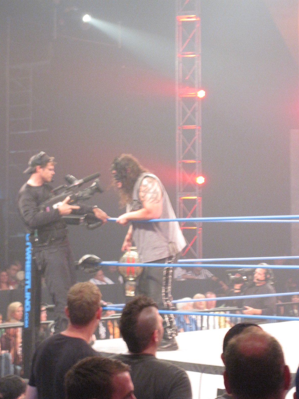 Sunday, June 12, 2011. Universal Orlando